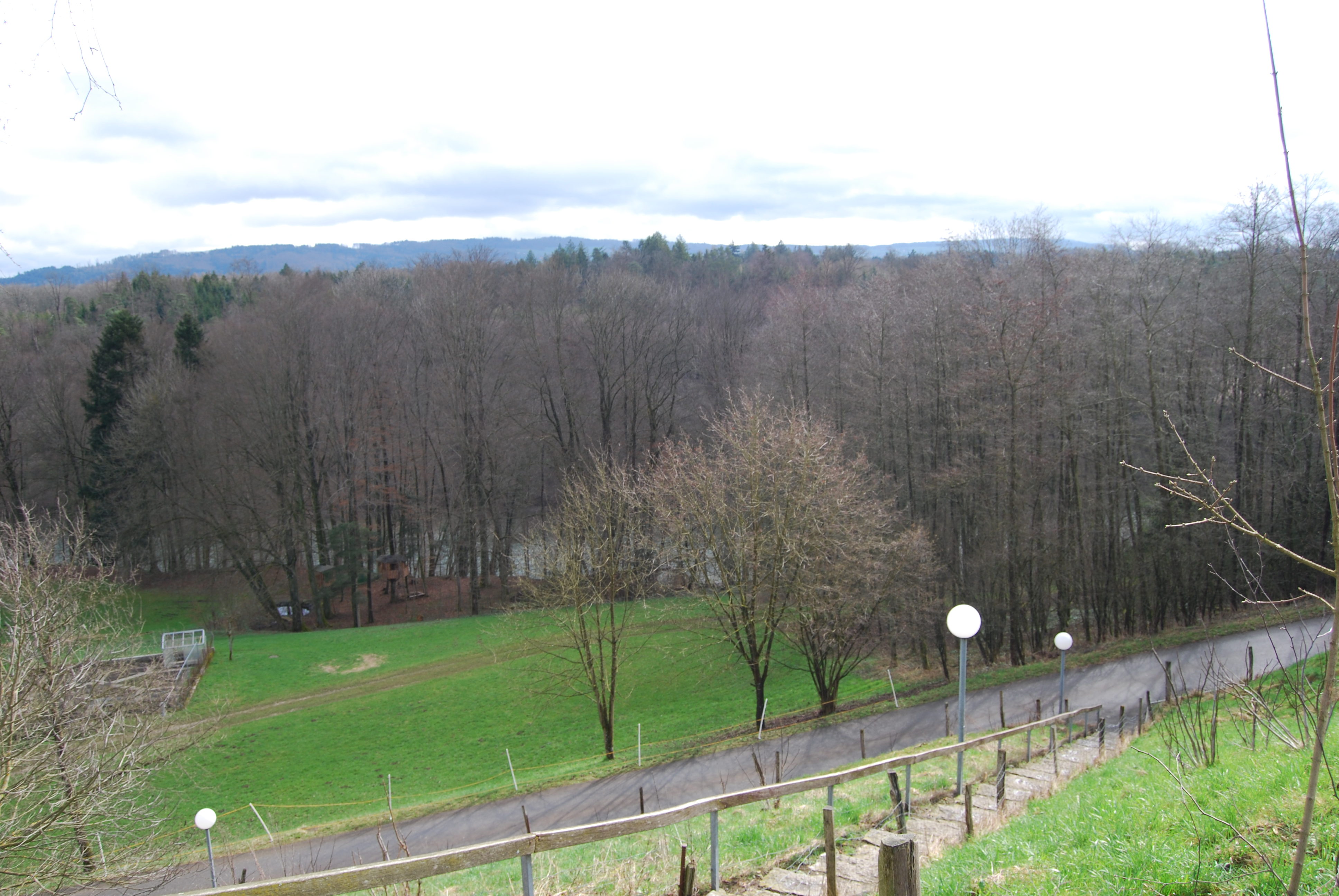 Reuss at Birrhard, canton of Aargau, SwitzerlandEsperanto: Reuss en Birrhard, Kantono Argovio, Svislando